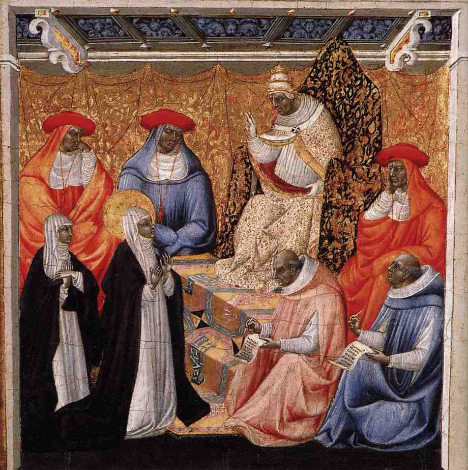 St Catherine before the Pope at Avignon // Museo Thyssen-Bornemisza, Madrid